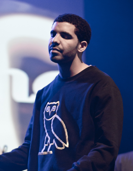 Drake at the Sound Academy, Toronto, Ontario, Canada.